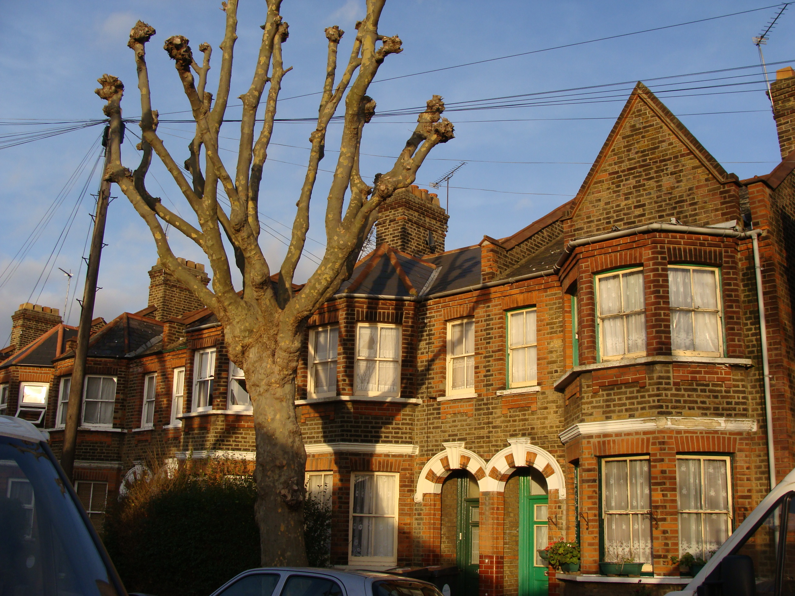 Typical Warner properties in Walthamstow. There are two typical patterns: houses as pictured here, and almost identical units built as flats rather than houses, each unit containing a ground floor and a first floor flat. The latter are distinguished by twin front doors, and by metal fire escapes at the rear. Formerly owned by the Warner Estate who painted the woodwork a uniform green and cream, as seen on the right. They are now mainly privately owned.